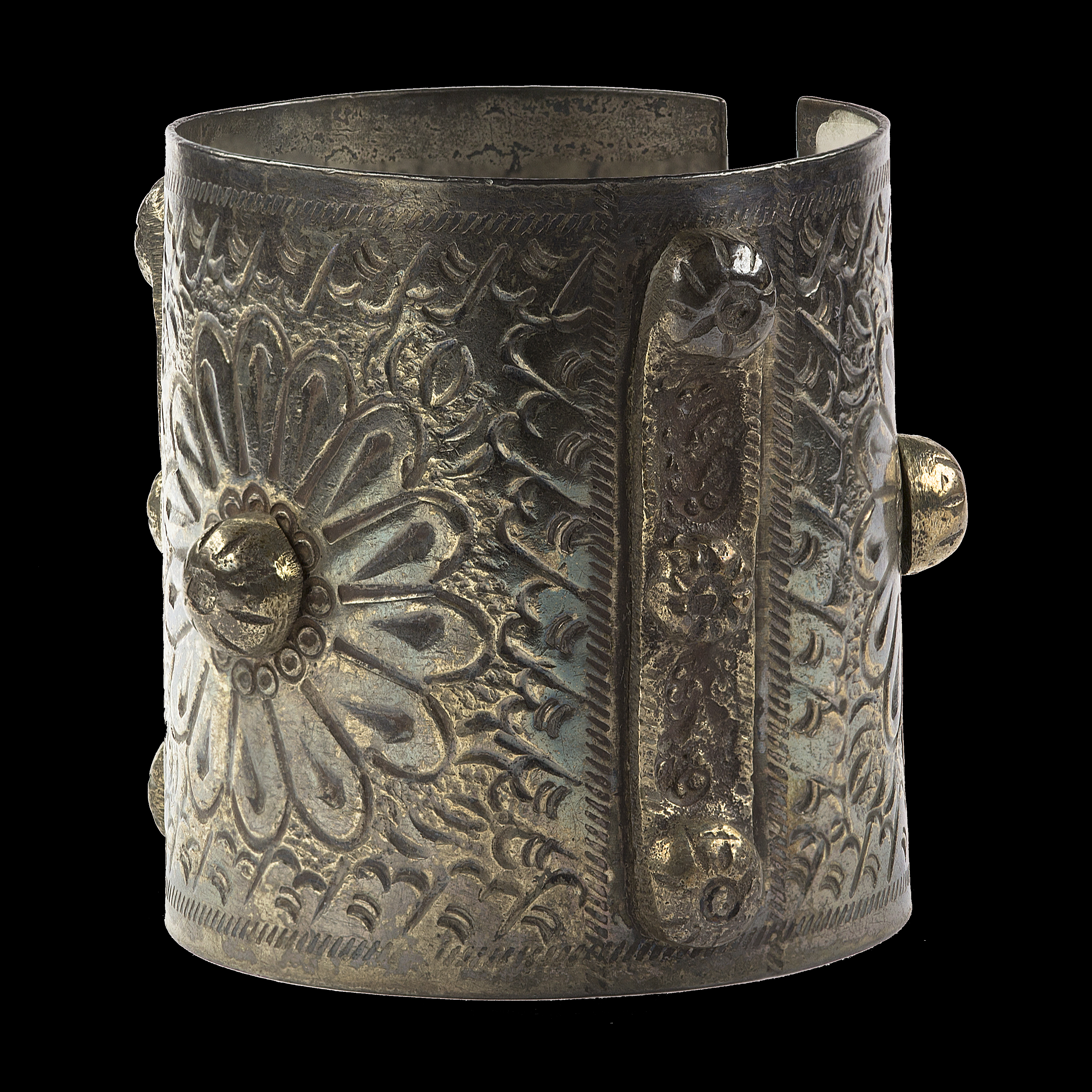 Large silver bracelet Population : Siwa Oasis Egypt. Collector and collection: Pierre-Henri Giscard, Institut des déserts Date of collection: 20th century date QS:P,+1950-00-00T00:00:00Z/7 Materials: silver Size : 7,5 x 8,0 x 7,0 cm